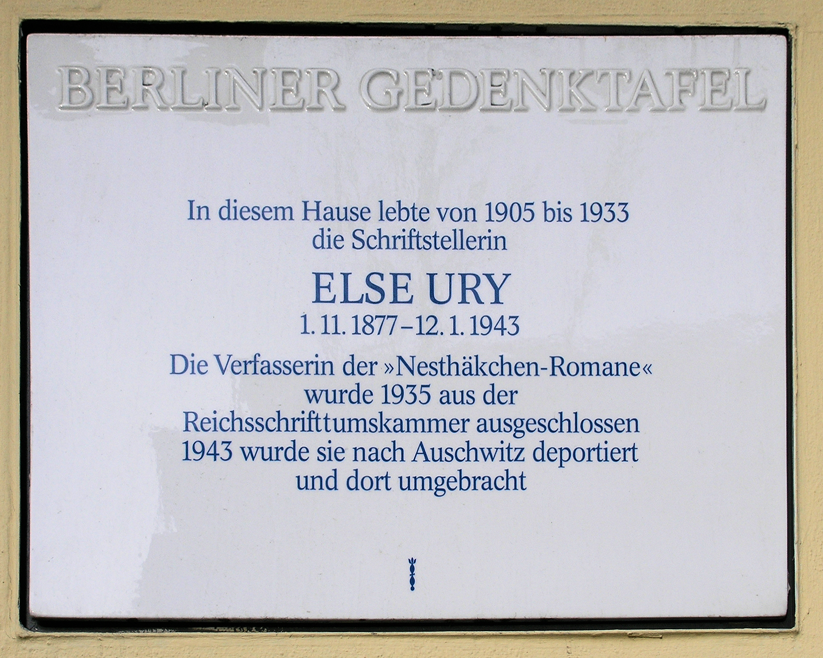 Berlin memorial plaque, Else Ury, Kantstraße 30, Berlin-Charlottenburg, Germany Koordinate:52°30′22″N 13°19′4″E / 52.50611°N 13.31778°E